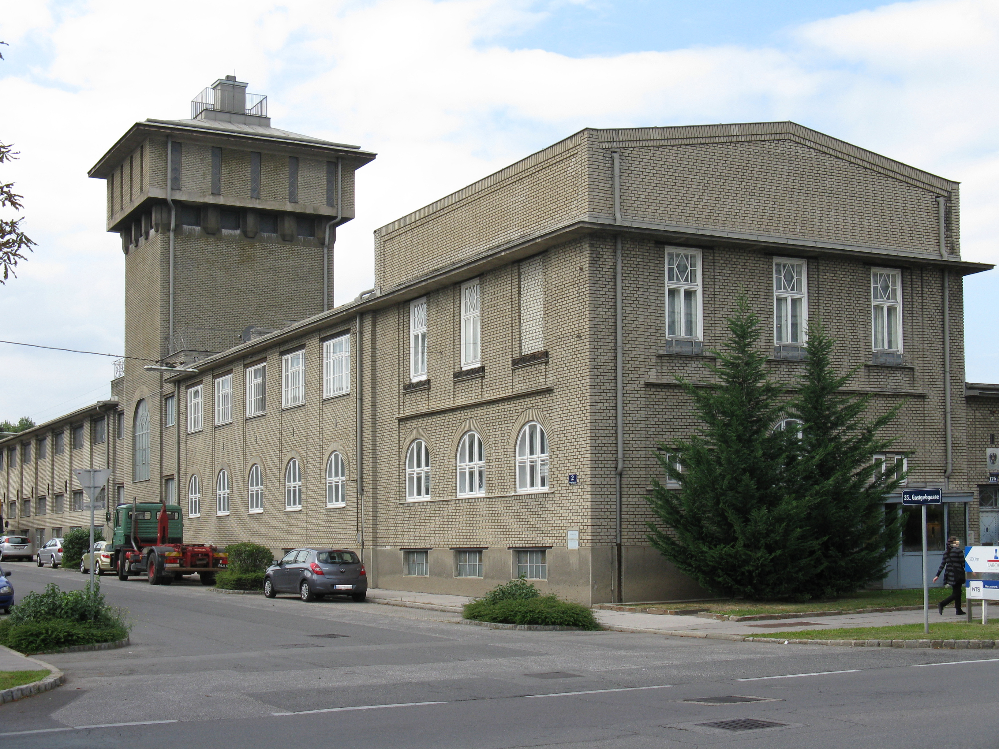 Coffin factory in Atzgersdorf